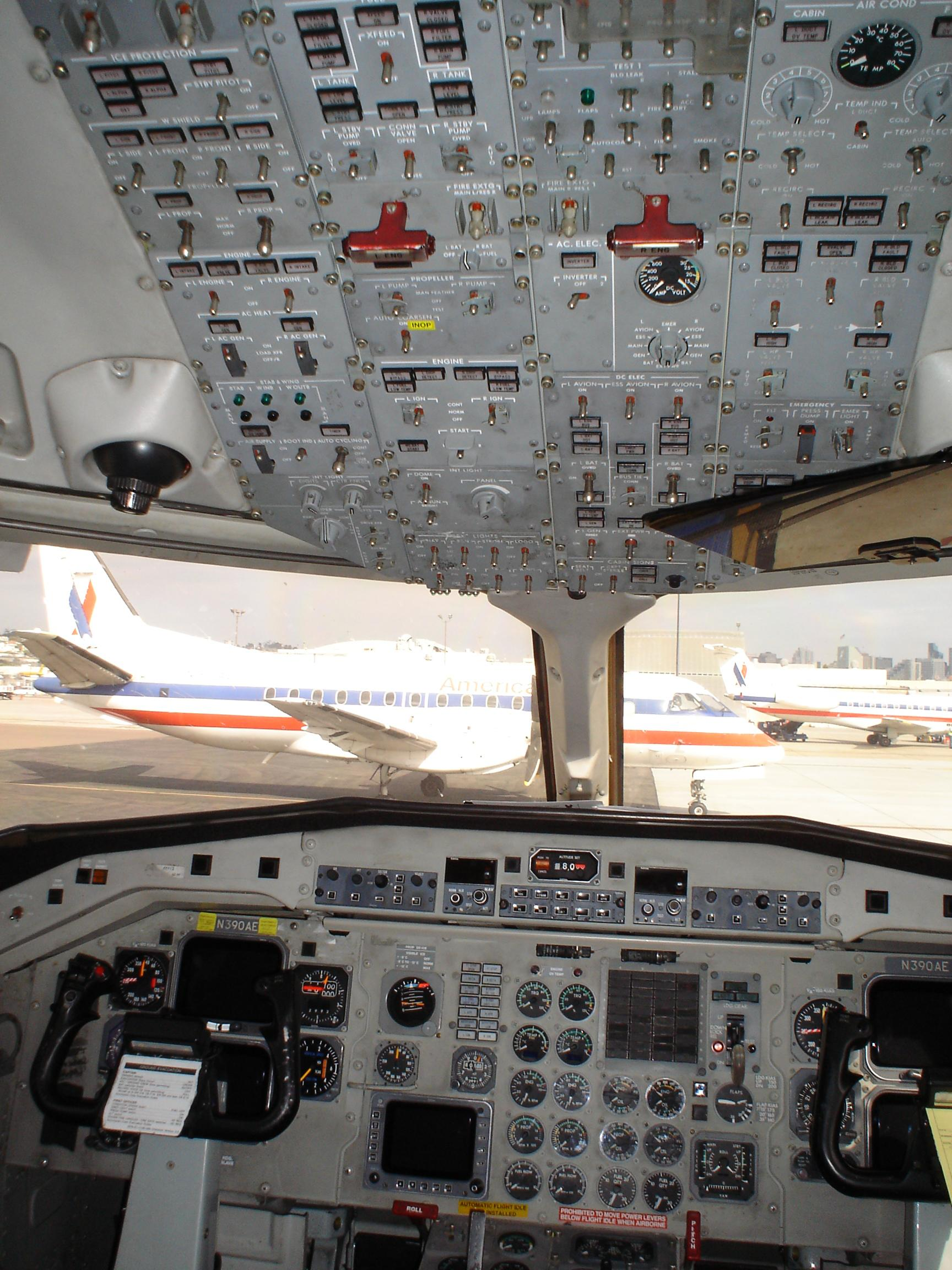 Photo taken at KSAN